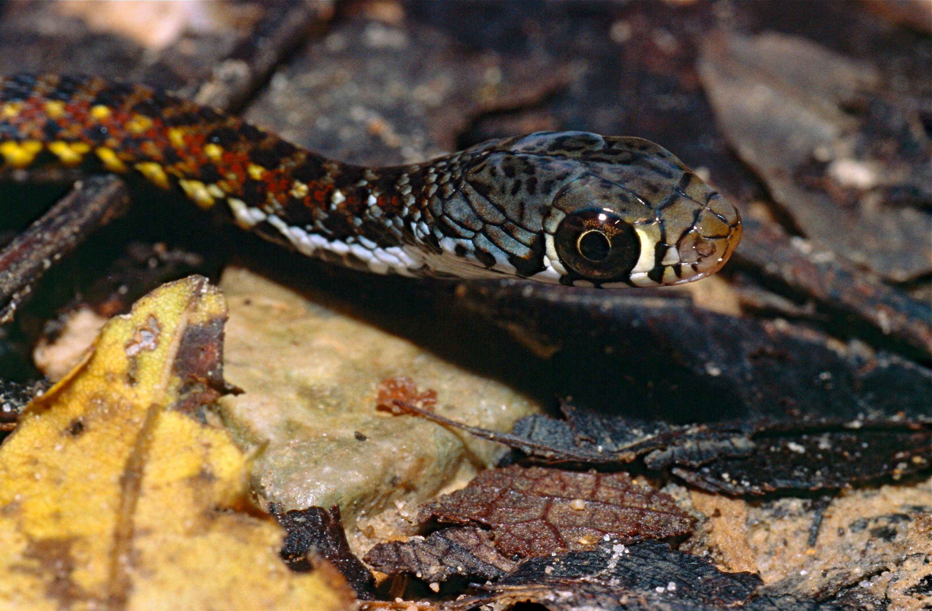 Lambir Hills NP, Sarawak, MALAYSIA Scanned slide from 2001